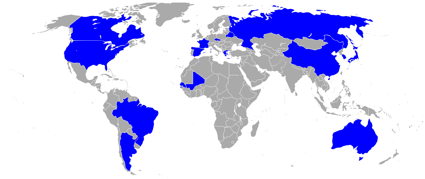 Shows teams of 2010 FIBA World Championship for Women on a world map